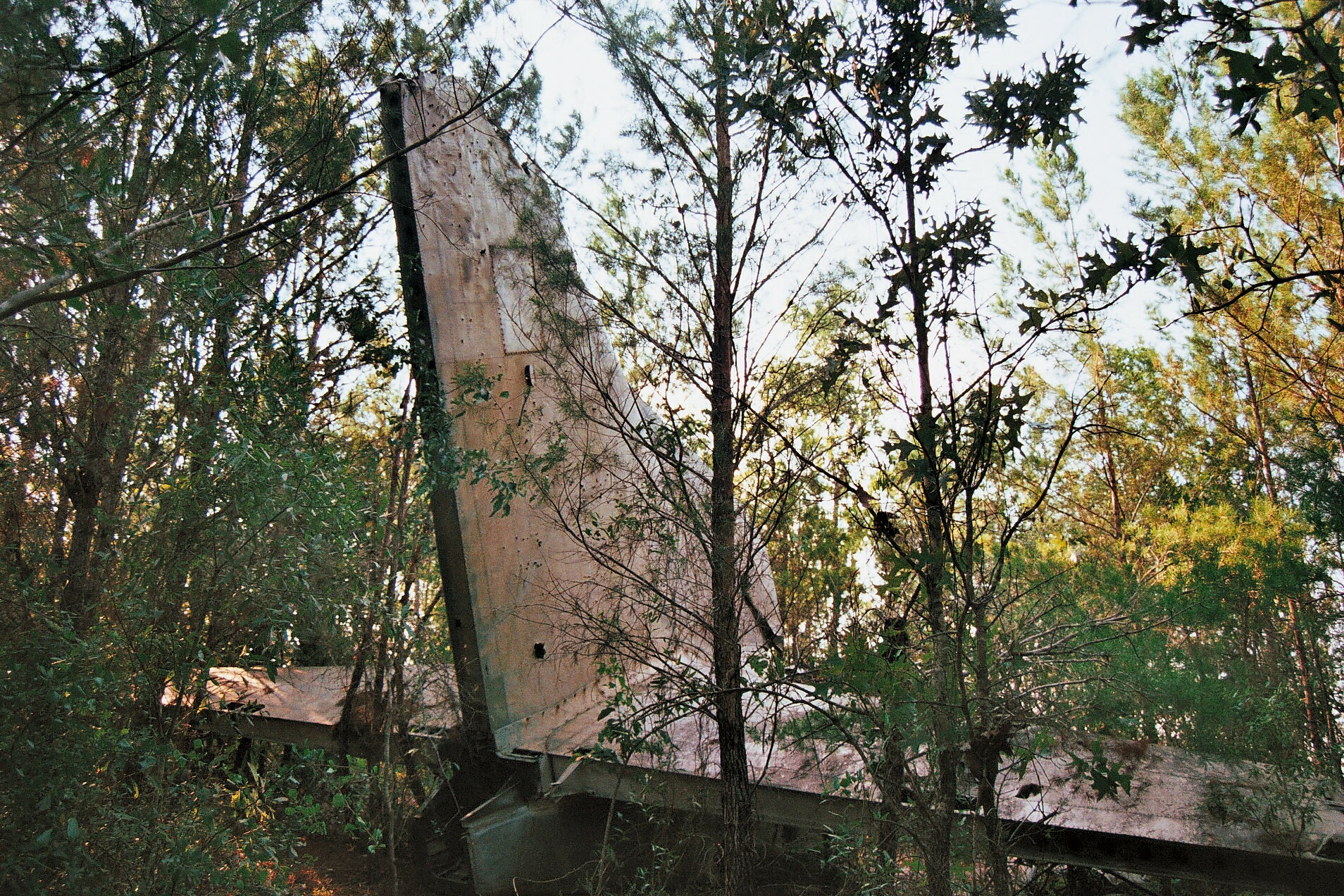 Tail section of Fairchild C-123K-12-FA, 55-4518, crashed on approach to Duke Field, Florida, 25 January 1968.